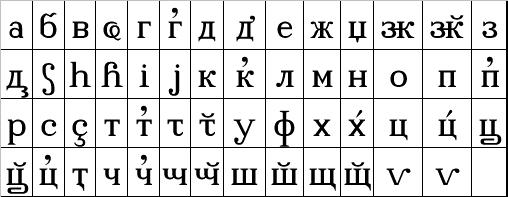 Abkhaz alphabet by Uslar (from 1888 book)